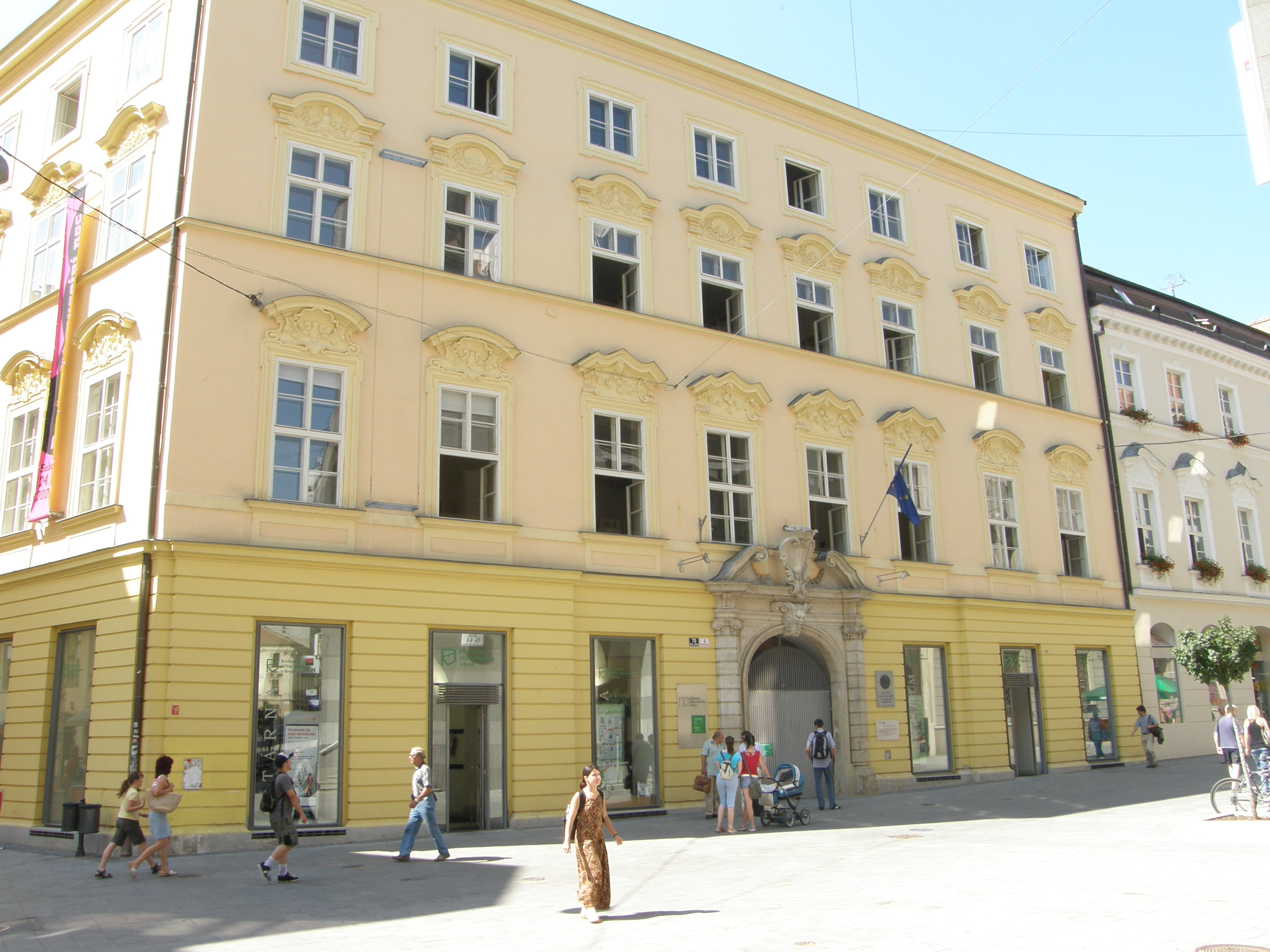 Library Jiří Mahen in Brno